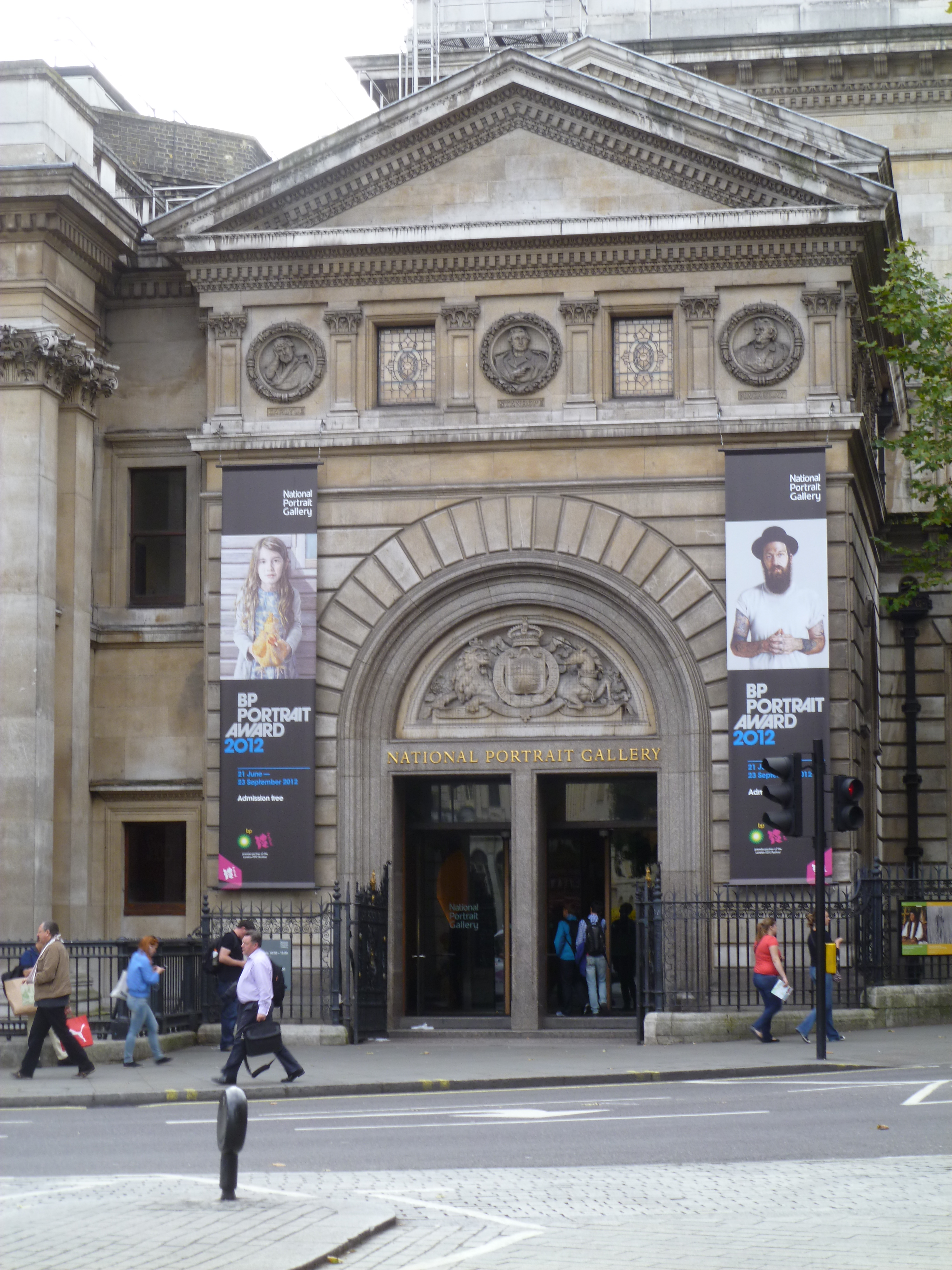 photograph of National Portrait Gallery showing main entrance in St. Martin's Place